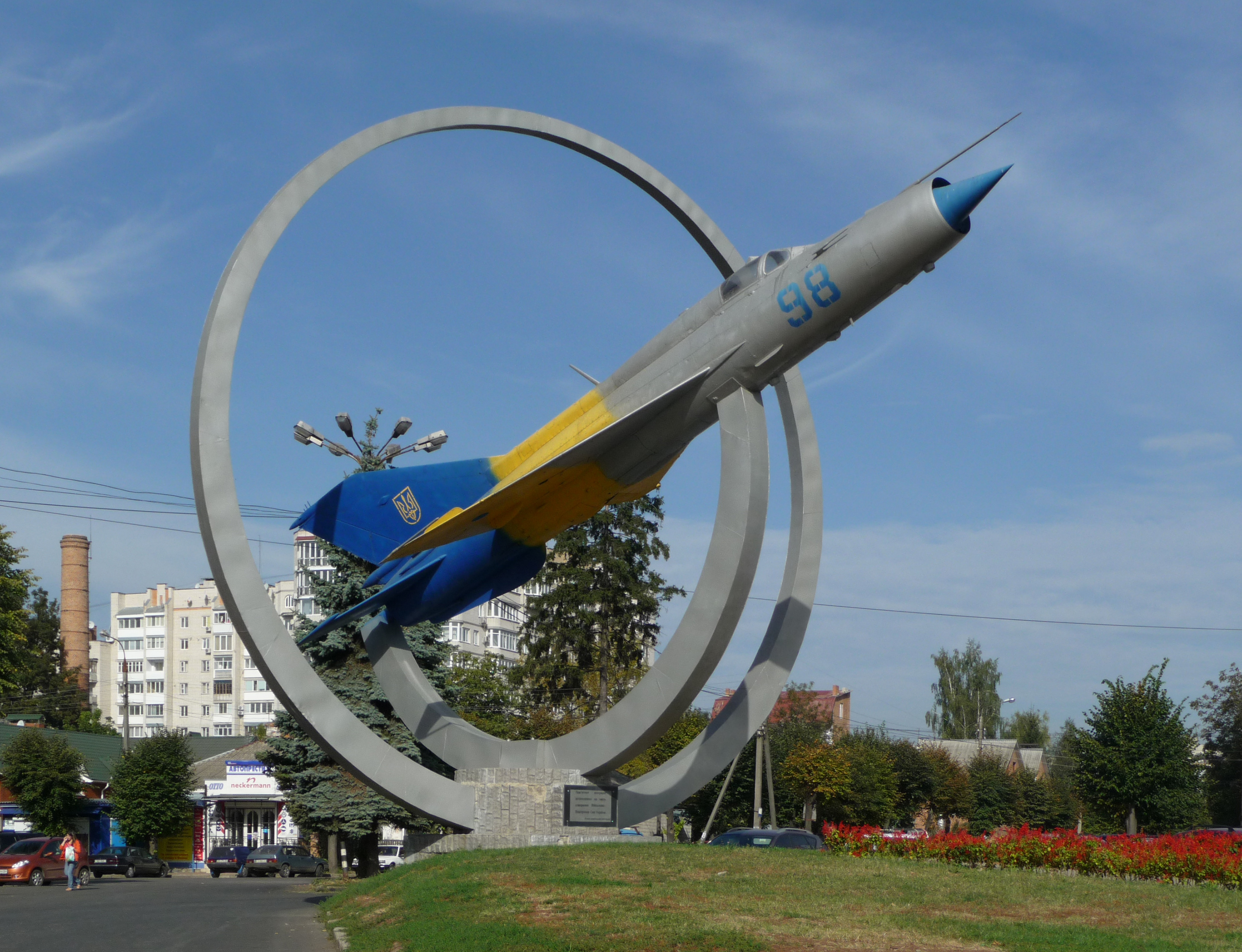 Monument to Constitution of the Ukrainian Air Force. A remote-controled drone M-21M converted from old Soviet jet fighter MiG-21PFM. Ukraine, Vinnitsa. Erect in 1998.